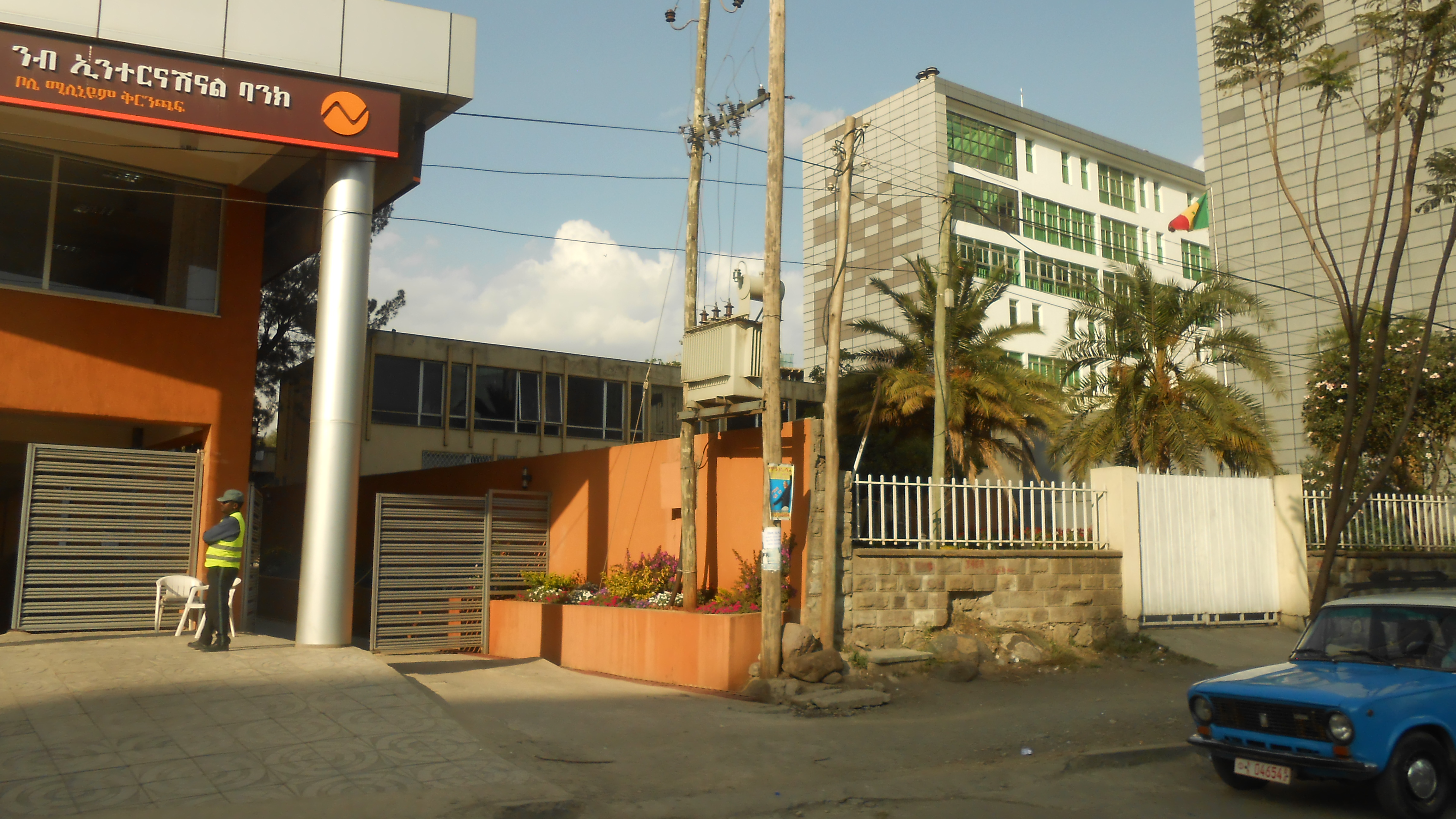 The embassy of Senegal in Addis Ababa, capital of Ethiopia. On the left, there is a security standing in front of a bank branch.